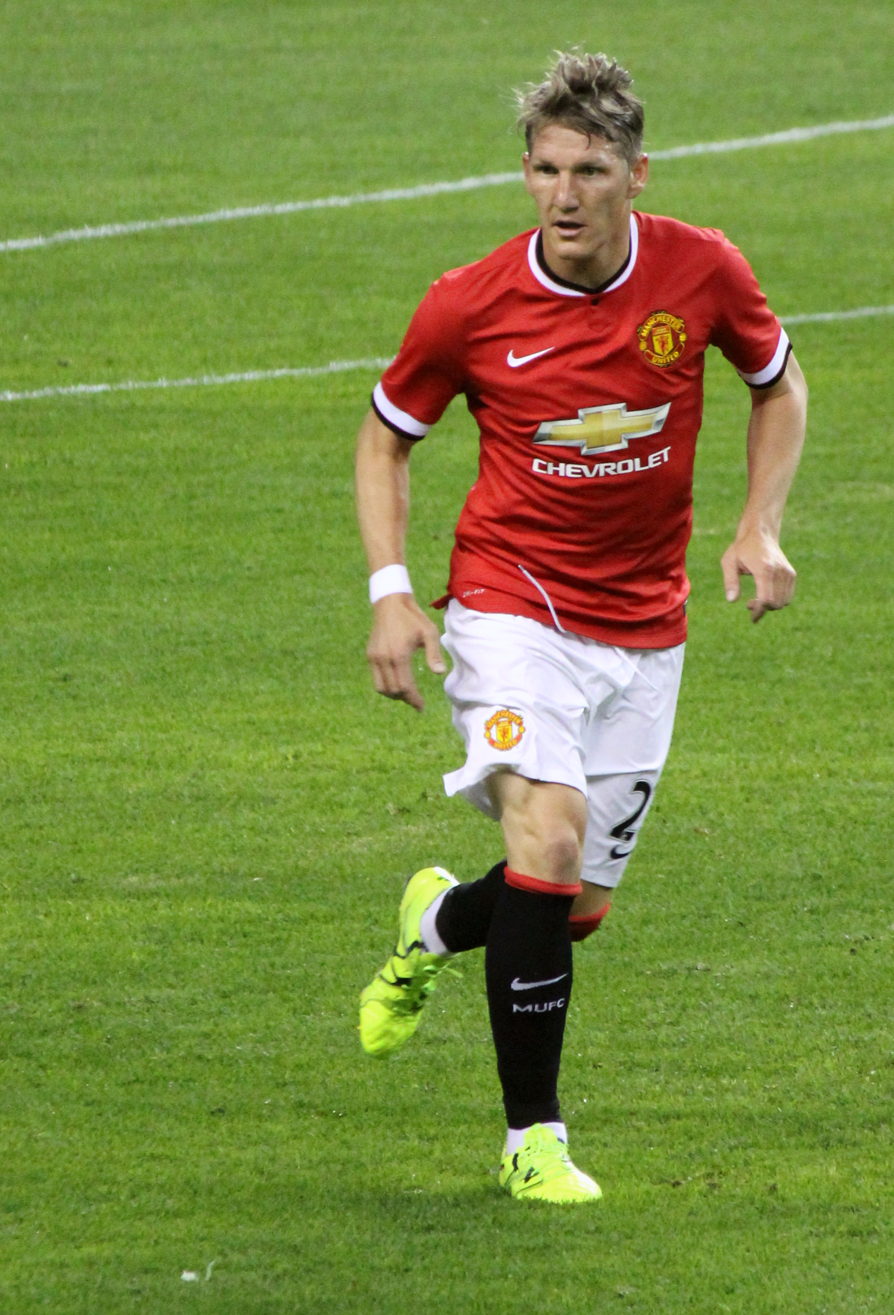 Bastian Schweinsteiger playing for Manchester United in pre-season friendly against Club America